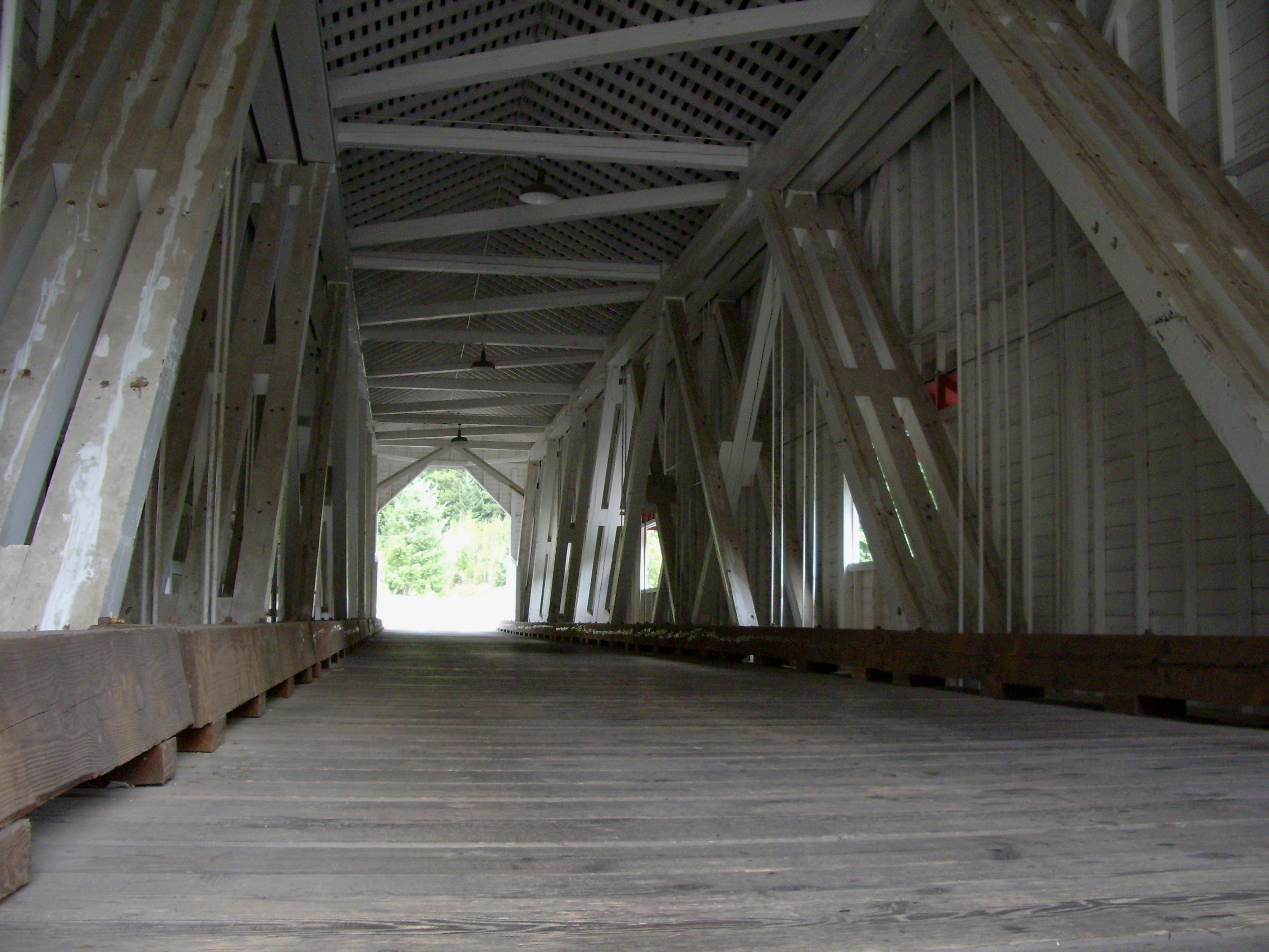 Office Bridge in Westfir, Oregon over the North Fork Middle Fork Willamette River